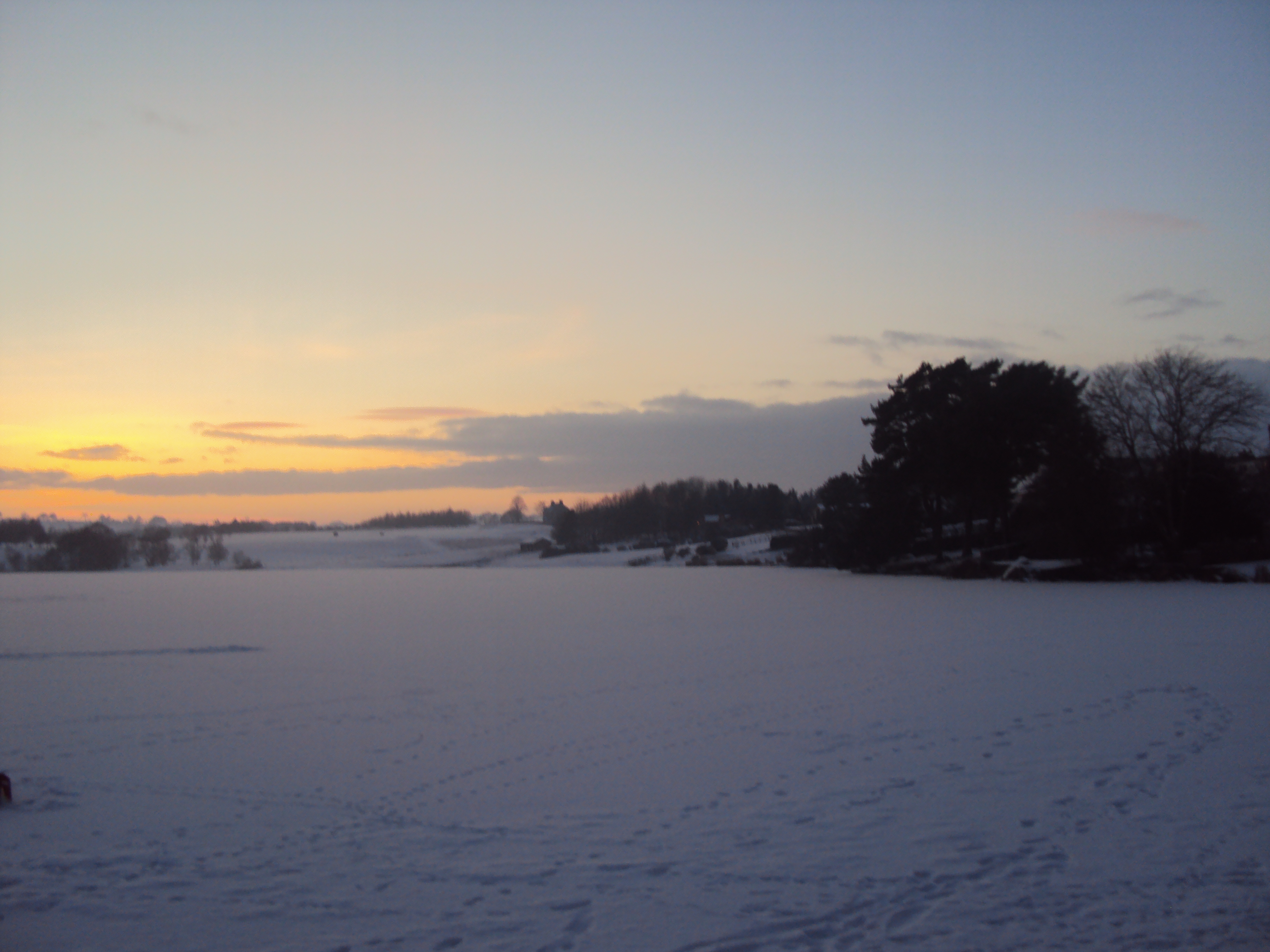 This is a photo of a Christmas day sunset at the kirk loch in Lochmaben.